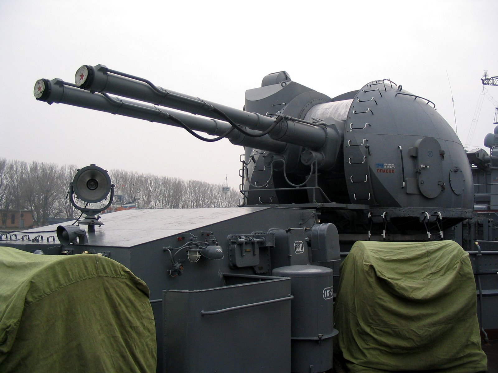 A Russian 130-mm automatic naval gun AK-130 (A-218) on destroyer «Nastoychivyi» in Baltiysk.